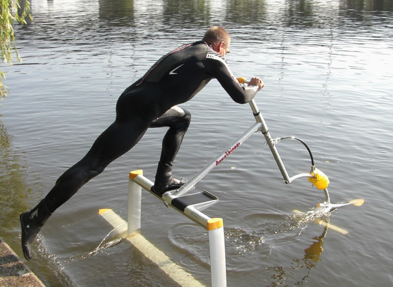 AquaSkipper human-powered Hydrofoil on river Spree in Berlin, Germany